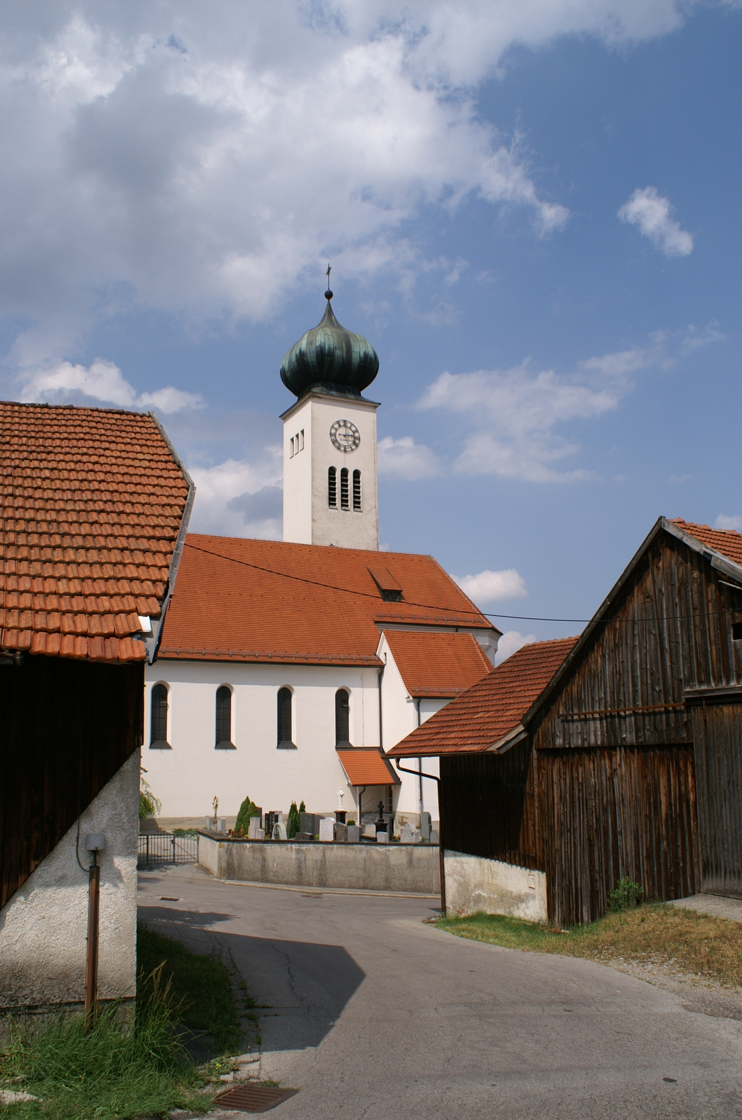 Die 1928 neu errichtete Pfarrkirche in Biessenhofen